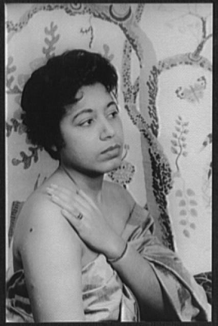 Title: Portrait of Mattiwilda Dobbs Abstract: 1 photographic print : gelatin silver.